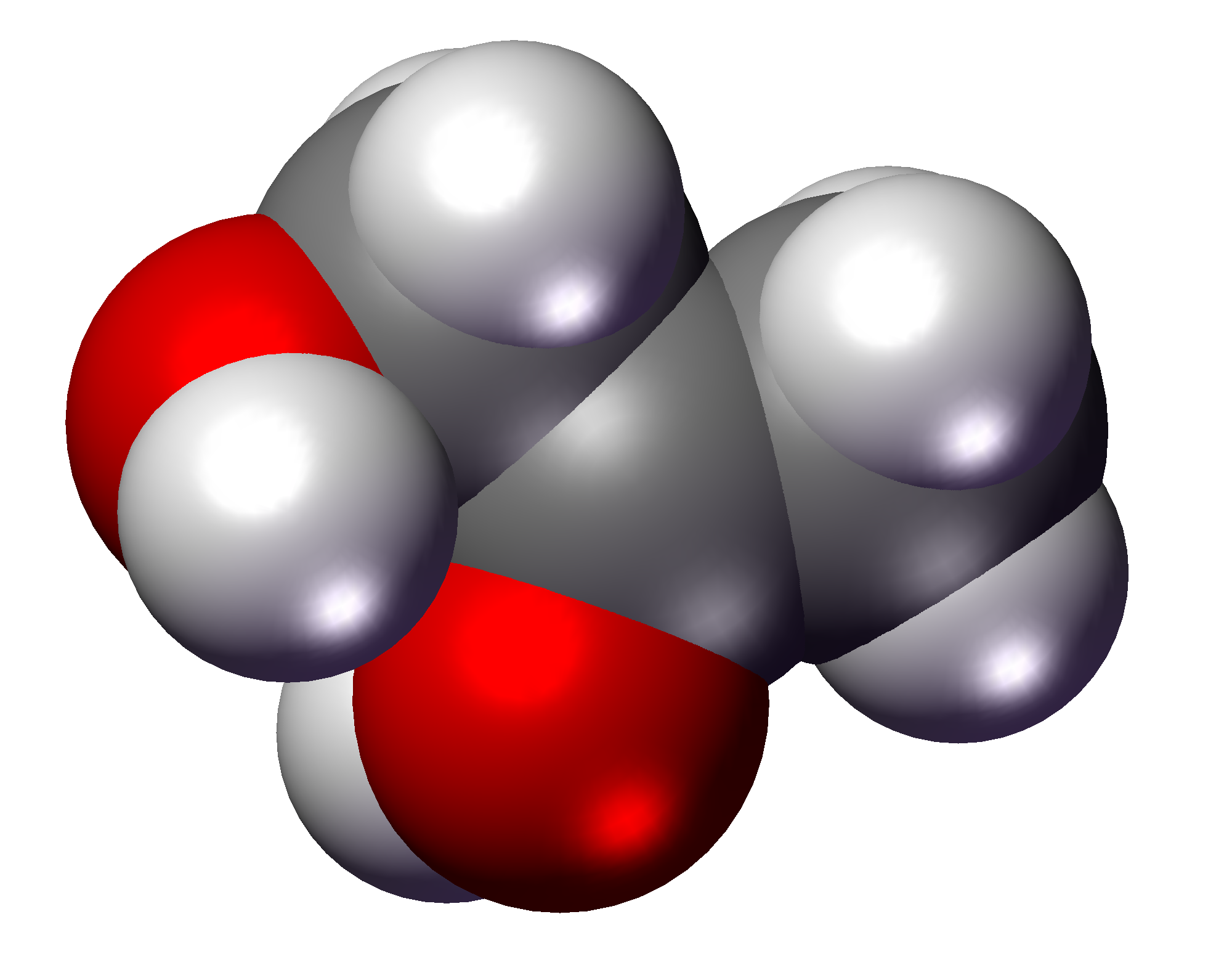 3D model of propylene glycol molecule. Prepared using Discovery Studio Visualizer 1.7 and GIMP 2.2